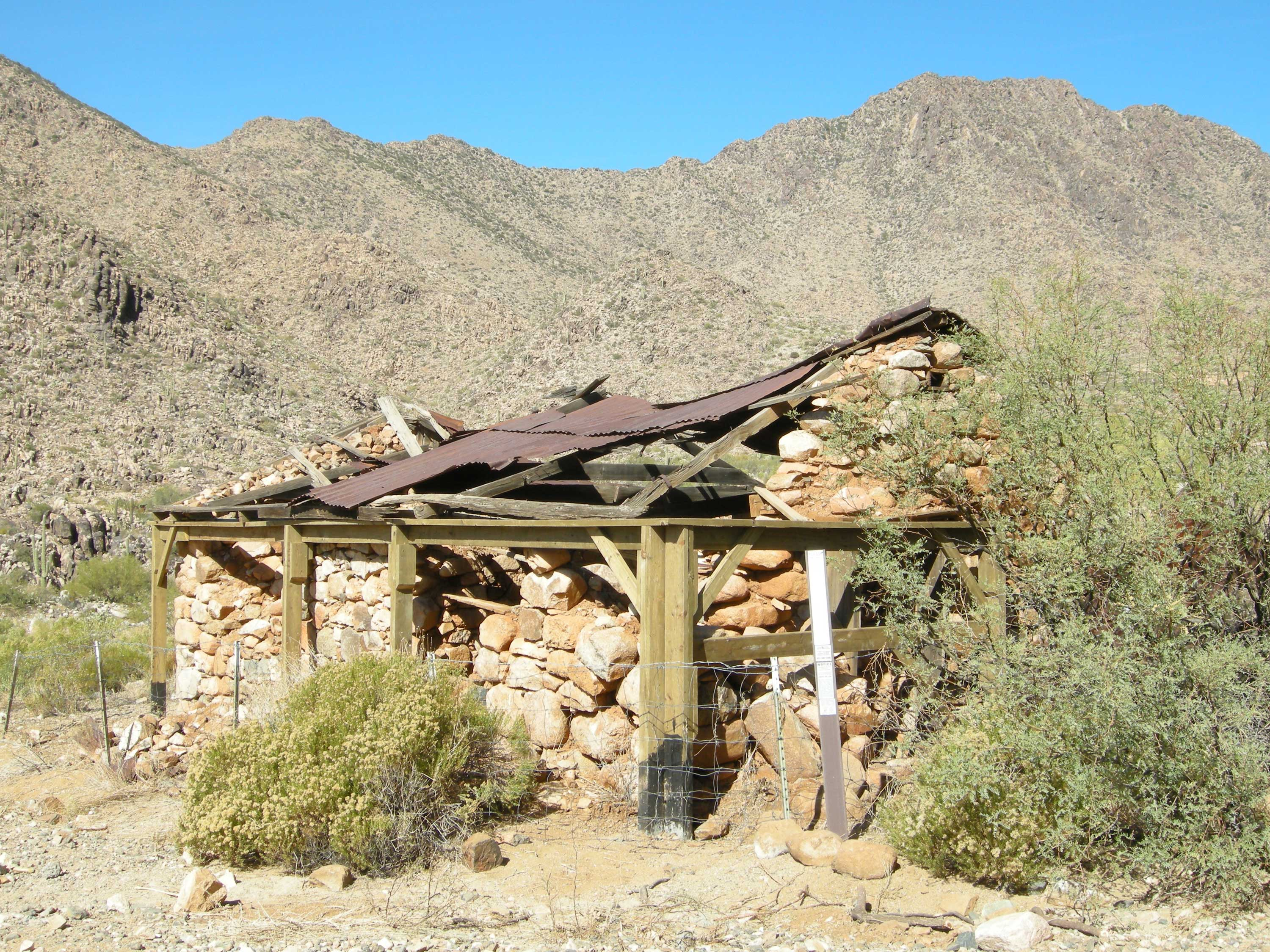 Abandoned stone building at the ghost town of Weaver, Arizona, USA, at Rich Hill, east of Yarnell, Arizona, southeast Weaver Mountains; Rich Hill, also the site of ghost town Stanton, Arizona.